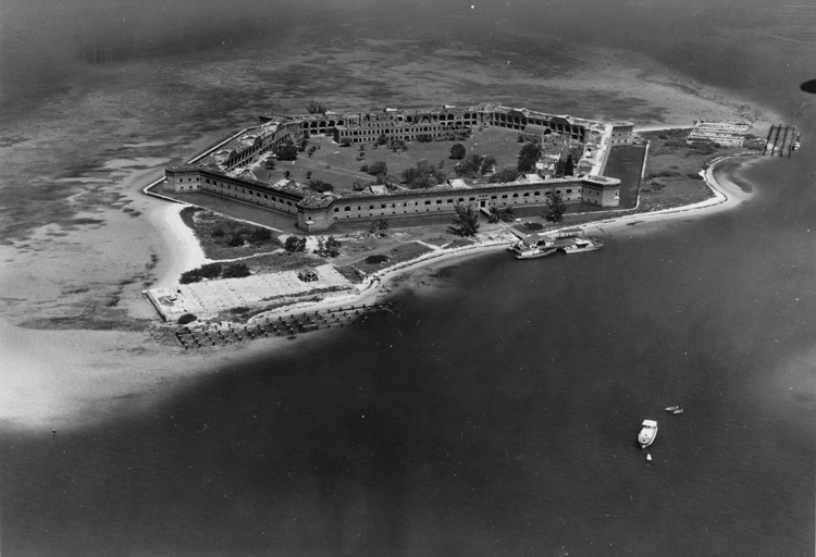 Undated photo of Fort Jefferson — located in the Gulf of Mexico about 70 miles west of Key West, Florida. The walkway from the boats leads into the Sally Port, the entrance to Fort Jefferson. Just above the Sally Port entrance is the casemate, or gun room, where Dr. Samuel A. Mudd, Edman Spangler, Samuel Arnold, and Michael O'Laughlen lived while imprisoned at Fort Jefferson. Note the six projections, or bastions, at the six corners of the fort. The ground level gun room in the bastion to the left of the Sally Port is the 'dungeon' where Dr. Mudd, Spangler, Arnold, O'Laughlen, and George St. Leger Grenfell were confined for three months following Dr. Mudd's unsuccessful escape attempt in September 1865. Image courtesy of federal HABS—Historic American Buildings Survey in Florida project. Library of Congress, Prints and Photographs Division, Historic American Buildings Survey (HABS) Reproduction Number FL-44-20. The Historic American Buildings Survey (HABS) is a program of the U.S. National Park Service. All HABS photos are in the public domain.